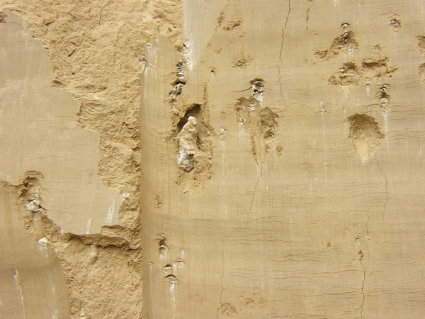 Loess wall close to Szenna, Hungary